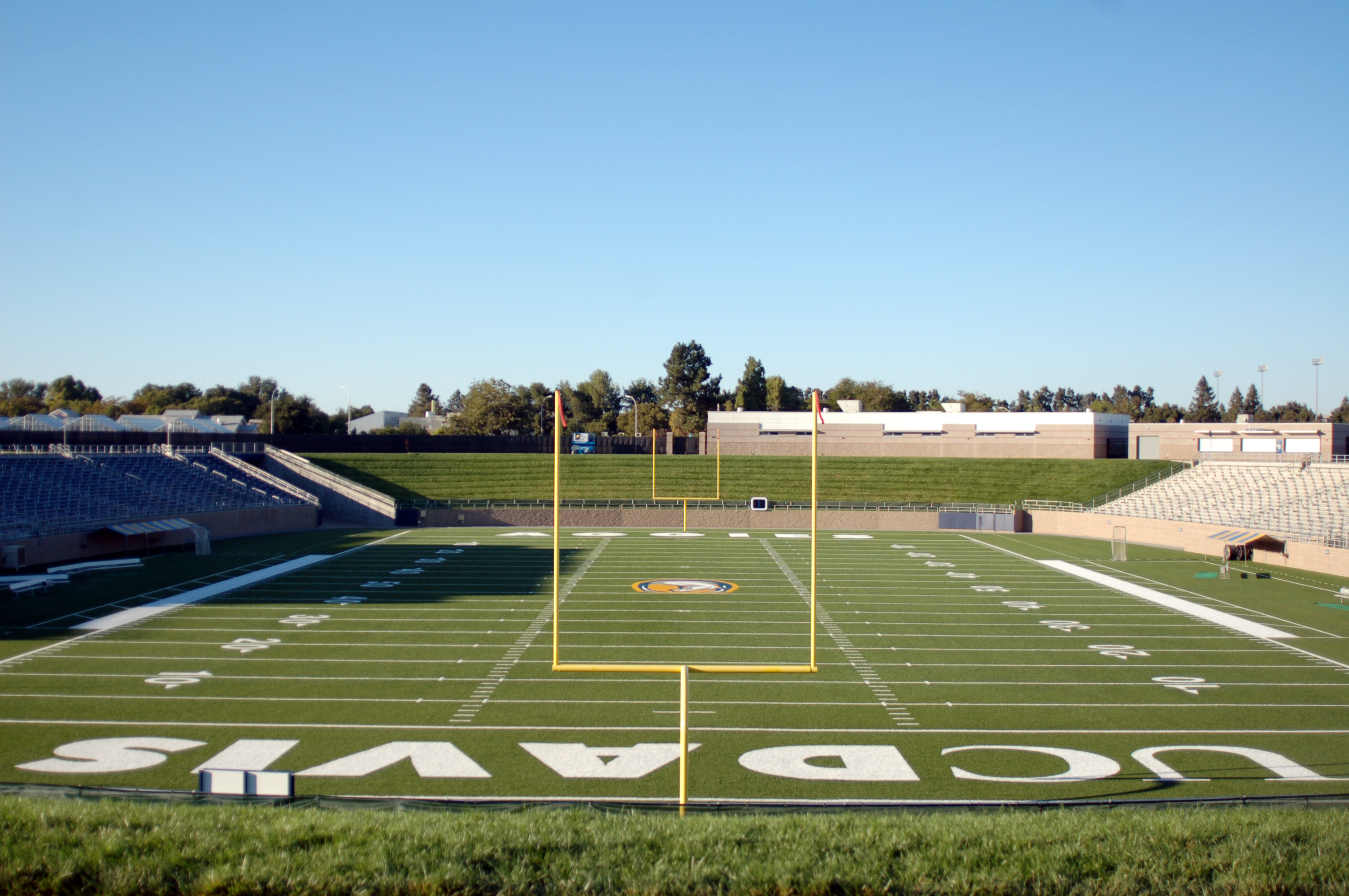 Aggie Stadium at the University of California, Davis. "It's been four days since I loaded my bags onto the back of my fathers Ford Truck and drove away from my place of comfort. Four days since i listened to "Make this go on forever", by snow patrol, and teared up. Four days since i looked back at my mother, looking back at me, and i couldn't help but think of the past. But now, just hours untill I start my first class, I look forward to whats going to happen. I've meet my friends, and continue to do so, i've gotten settled in, and all is well."